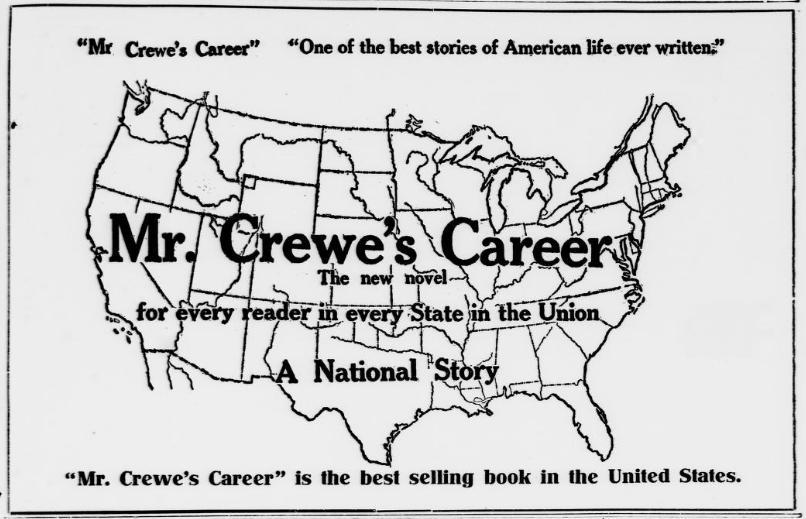 Advertisement for novel "Mr. Crewe's Career" by American novelist Winston Churchill, appearing in The New York Tribune, June 7, 1908, p. 7